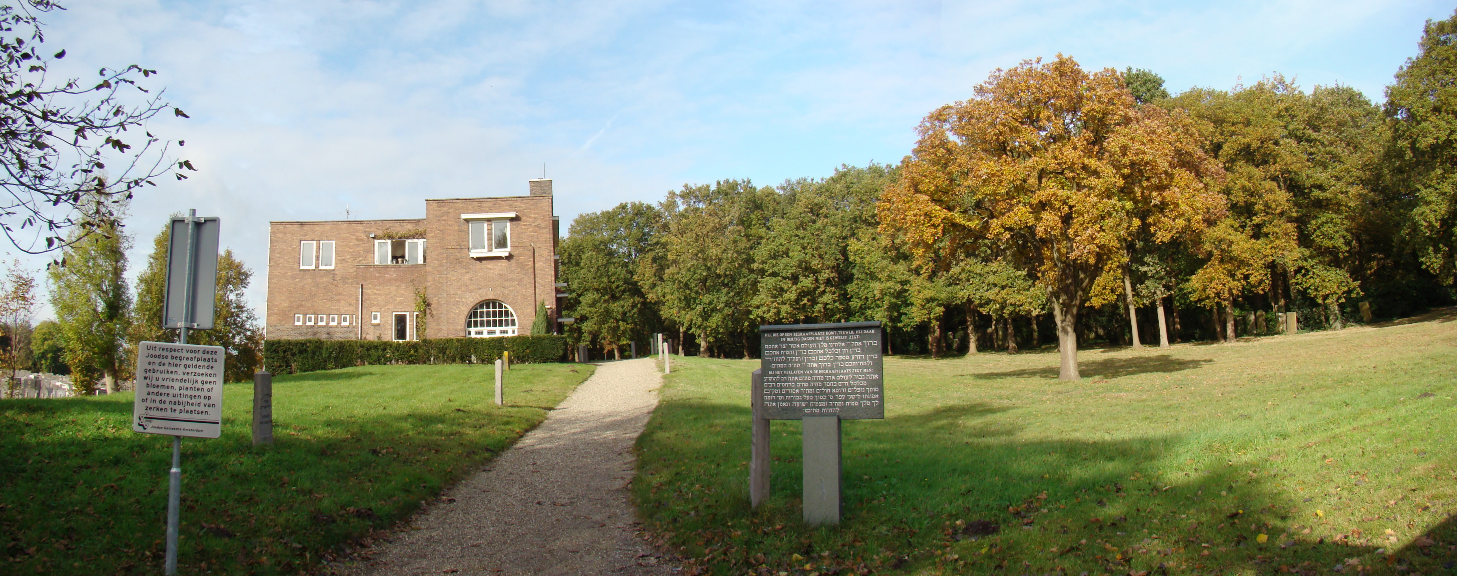 Jewesh semitary Muiderberg, Netherlands